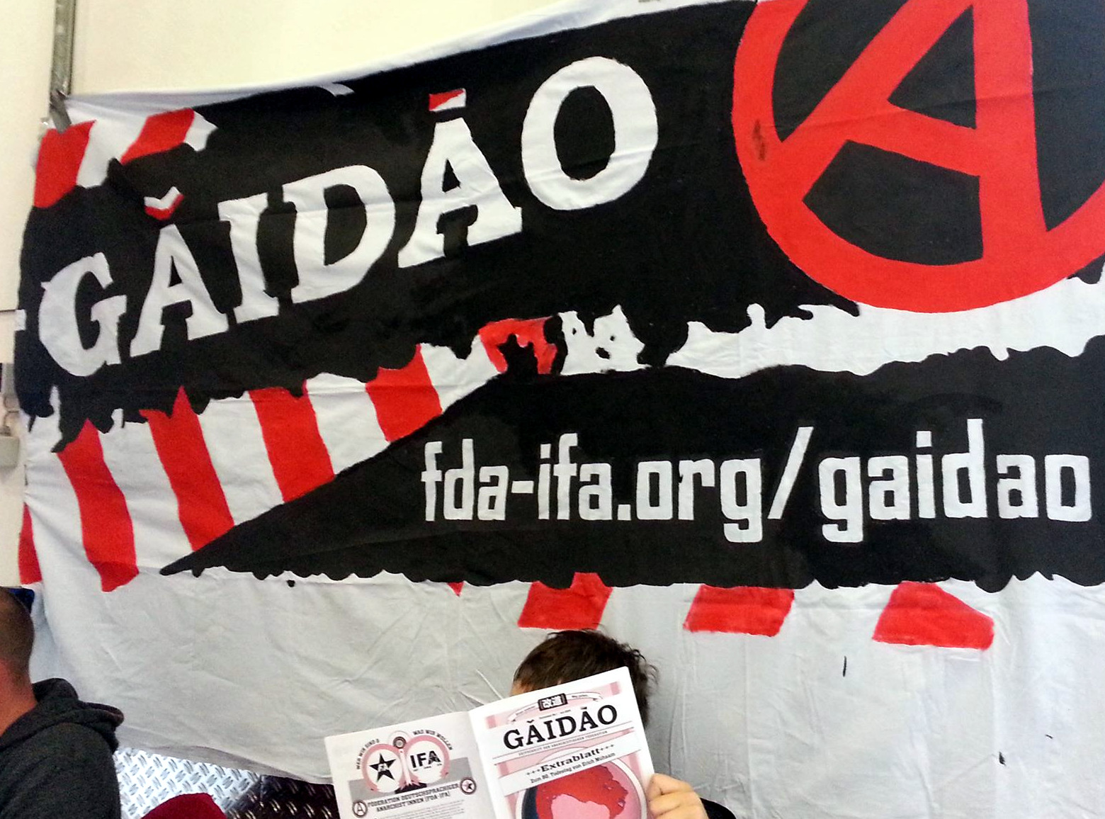 Banner of Gǎidào, magazine of the Ferderation of German language anarchists (FdA) at Libertarian media fair (LiMesse) 2014 in cultural center Zeche Carl in Essen, Germany